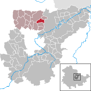 Leutenthal in Thuringia - District Weimarer Land